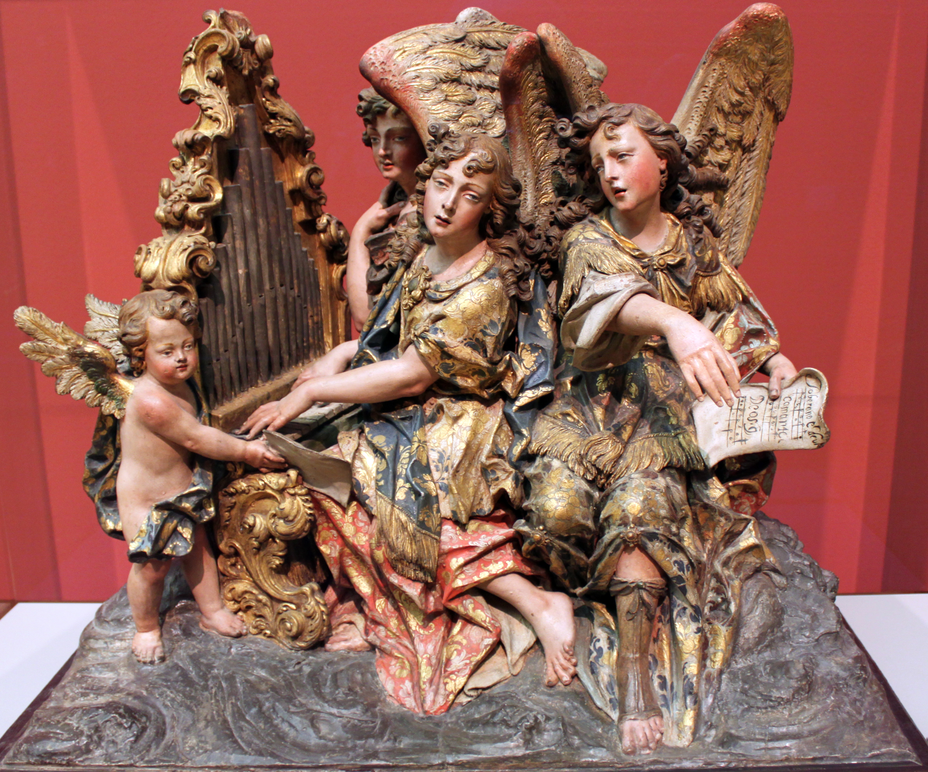 Angels playing musical instruments, ca. 1780, António Ferreira (sculptor) DescriptionPortuguese sculptorWork periodfrom 1731 until 1795 date QS:P,+1750-00-00T00:00:00Z/7,P580,+1731-00-00T00:00:00Z/9,P582,+1795-00-00T00:00:00Z/9Work location LisbonAuthority control : Q20890044 creator QS:P170,Q20890044 Bodemuseum Berlin (Inv. 3016)